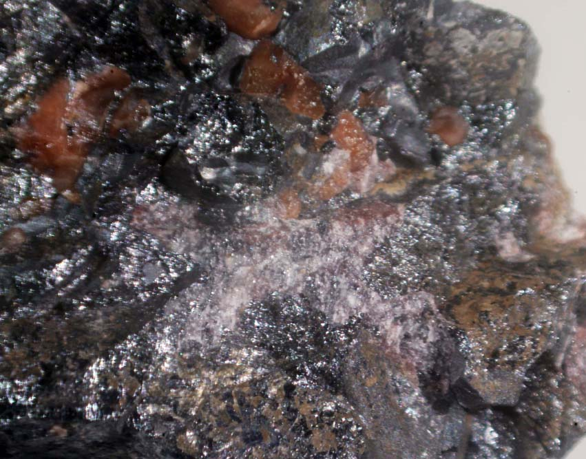 Pinkish crystal aggregates of the rare arsenate mineral adelite from the famous Franklin deposit (Sterling Hill, Ogdensburg, Sussex County, New Jersey, United States of America).